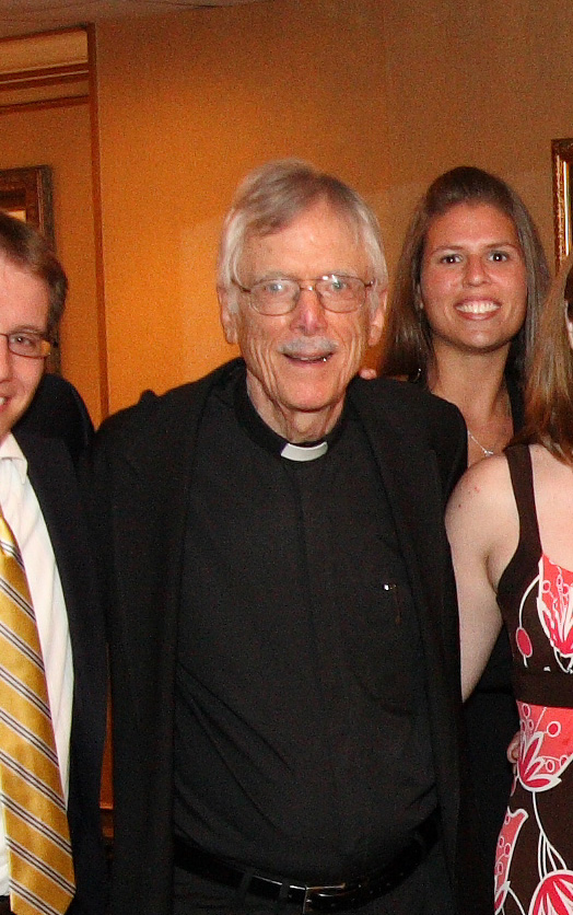 Fr. Thomas King, S.J., after celebrating a wedding in Pittsburgh, PA